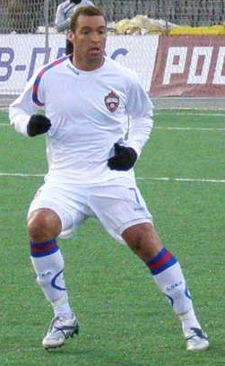 Daniel Carvalho in action for PFC CSKA Moscow